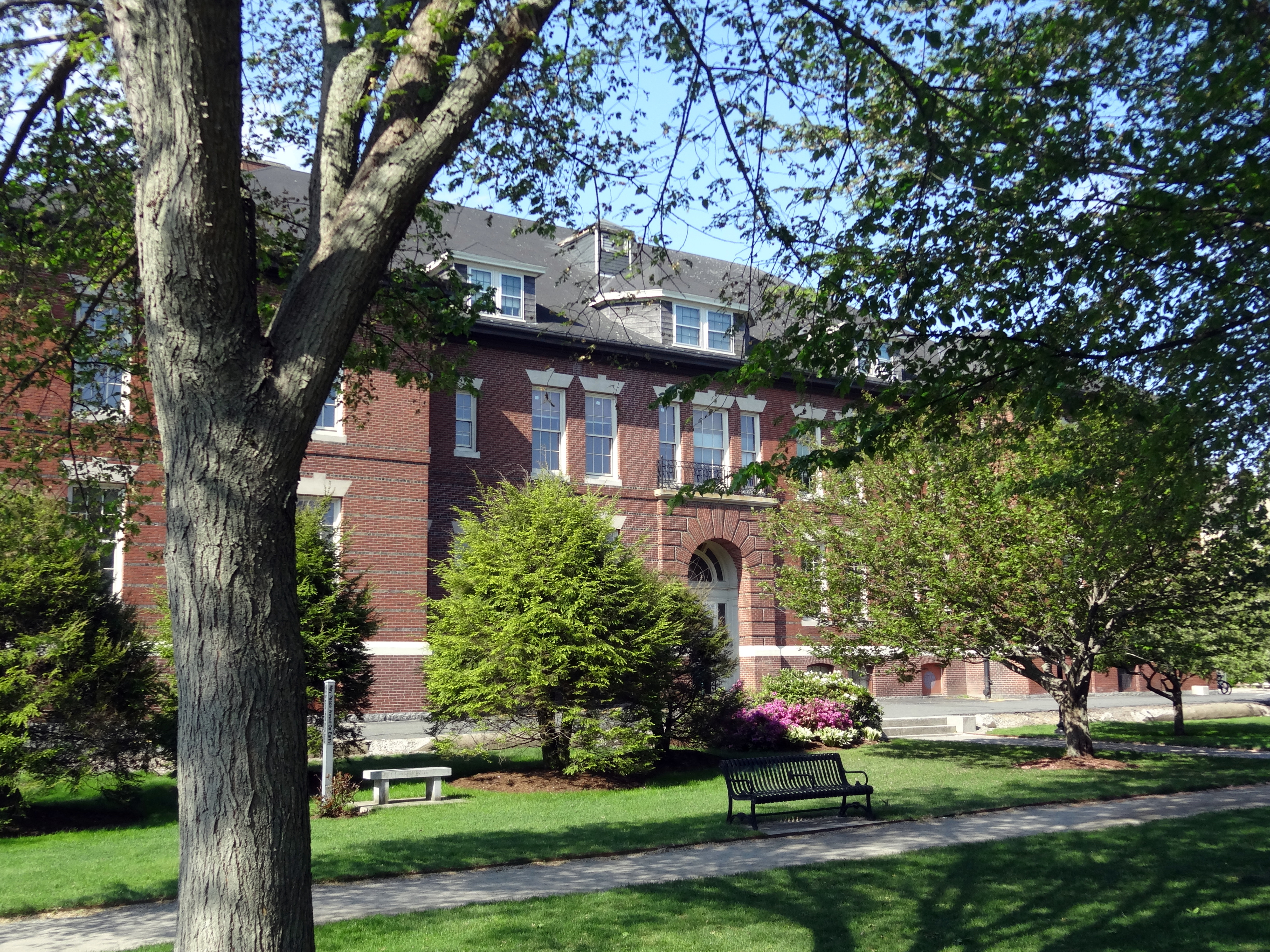 Hardie Building Montserrat College of Art 23 Essex Street Beverly, Massachusetts This building was originally the Hardie Elementary School